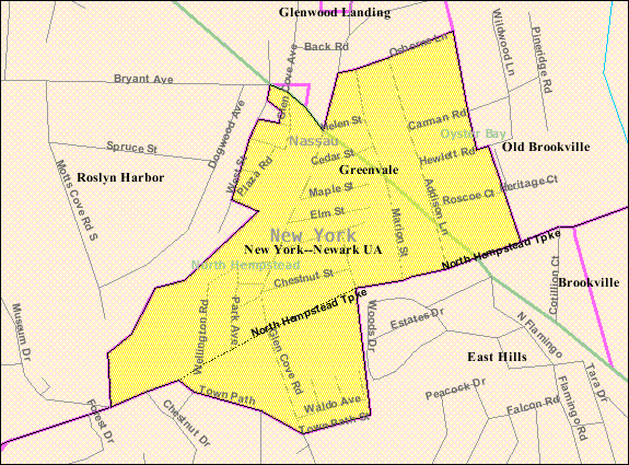 U.S. Census 2000 reference map for Greenvale, New York